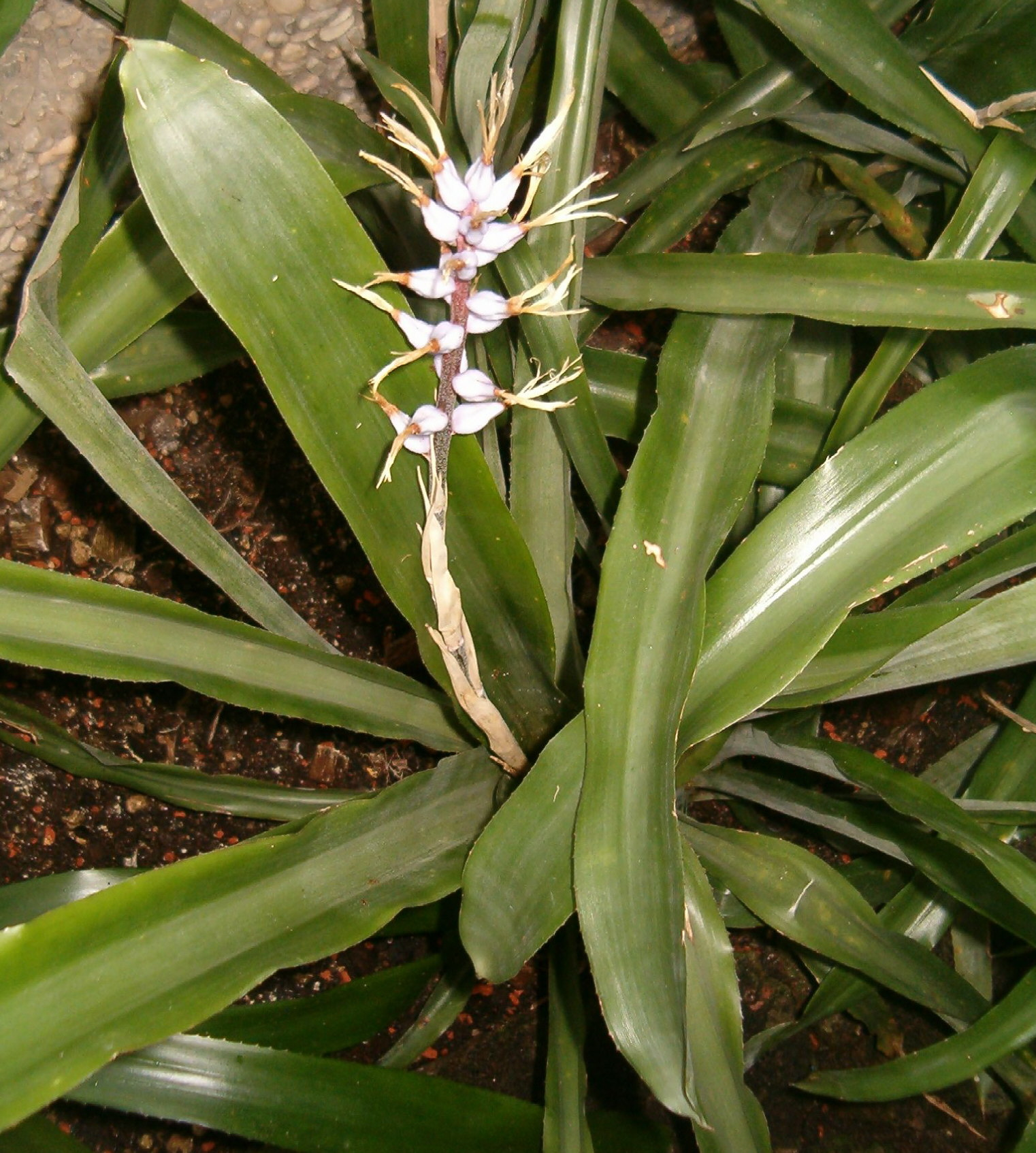 Location: Botanical Gardens Berlin Dahlem Habitus and Inflorescence